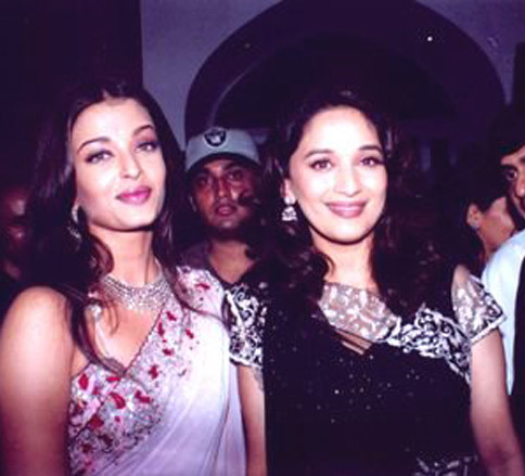 Aishwarya Rai(left) and Madhuri Dixit at the premiere of Devdas, 2002.